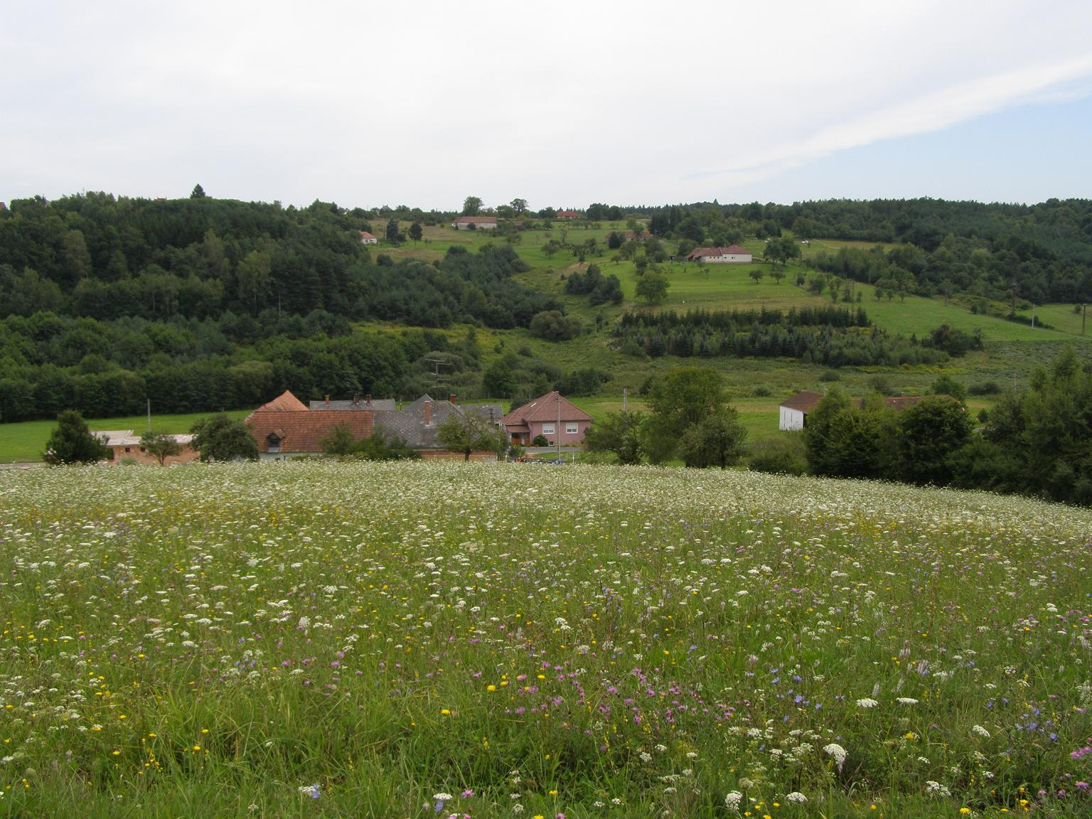 Újbalázsfalva (Otkovci) in the Vendvidék: the Bazar-hill